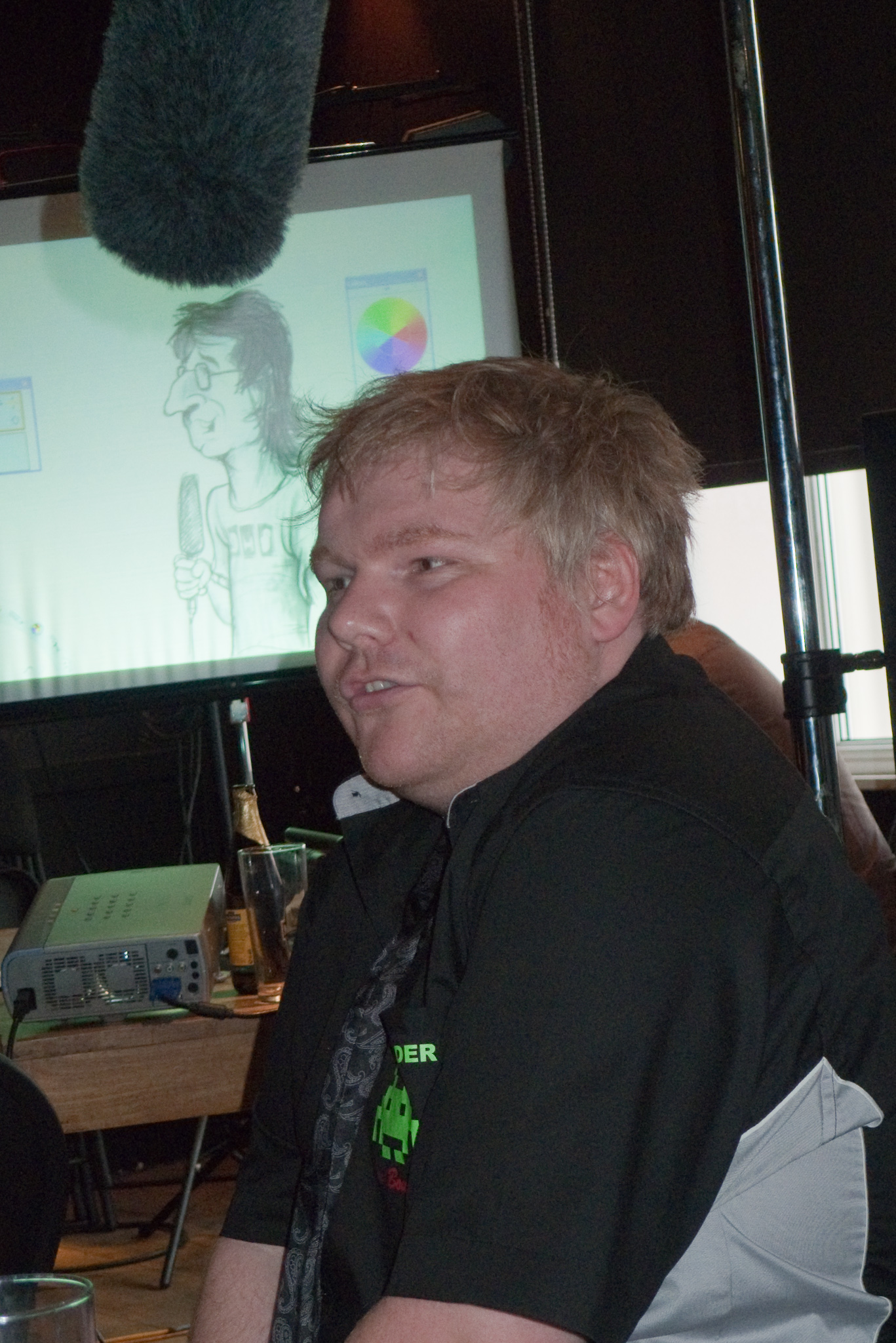 Jon Bounds at Moseley Barcamp, Birmingham, on 28 June 2009. Behind him is a caricature by Alex Hughes.